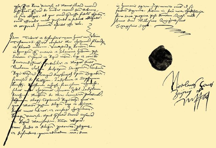 Nikola Šubić Zrinski´s Will, 1566 April 23 (book ill. 1898)